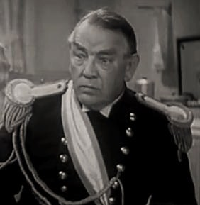 Roger Imhof in Red Lights Ahead (1936) - cropped screenshot.